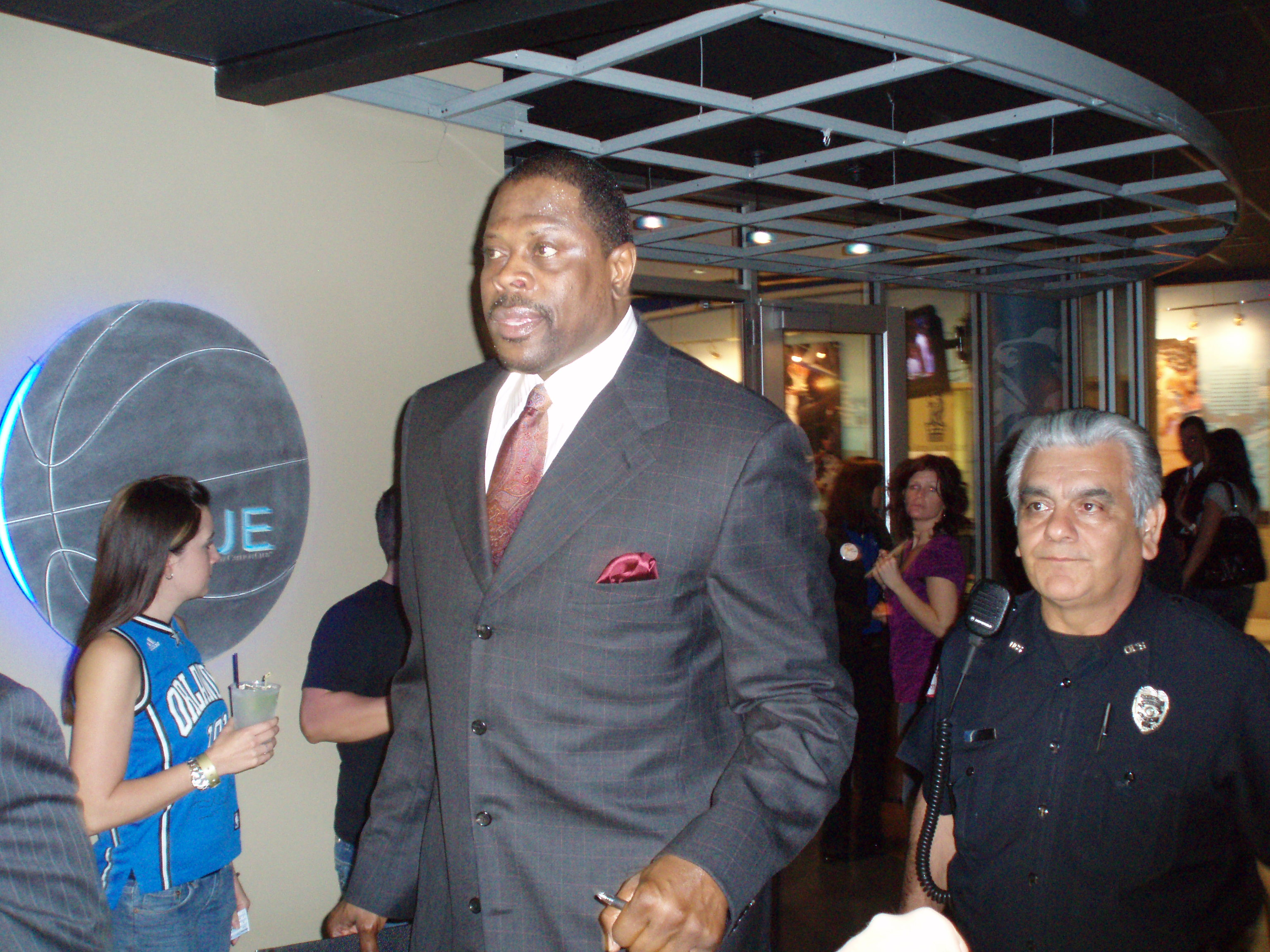 Patrick Ewing as assistant coach of the Orlando Magic.